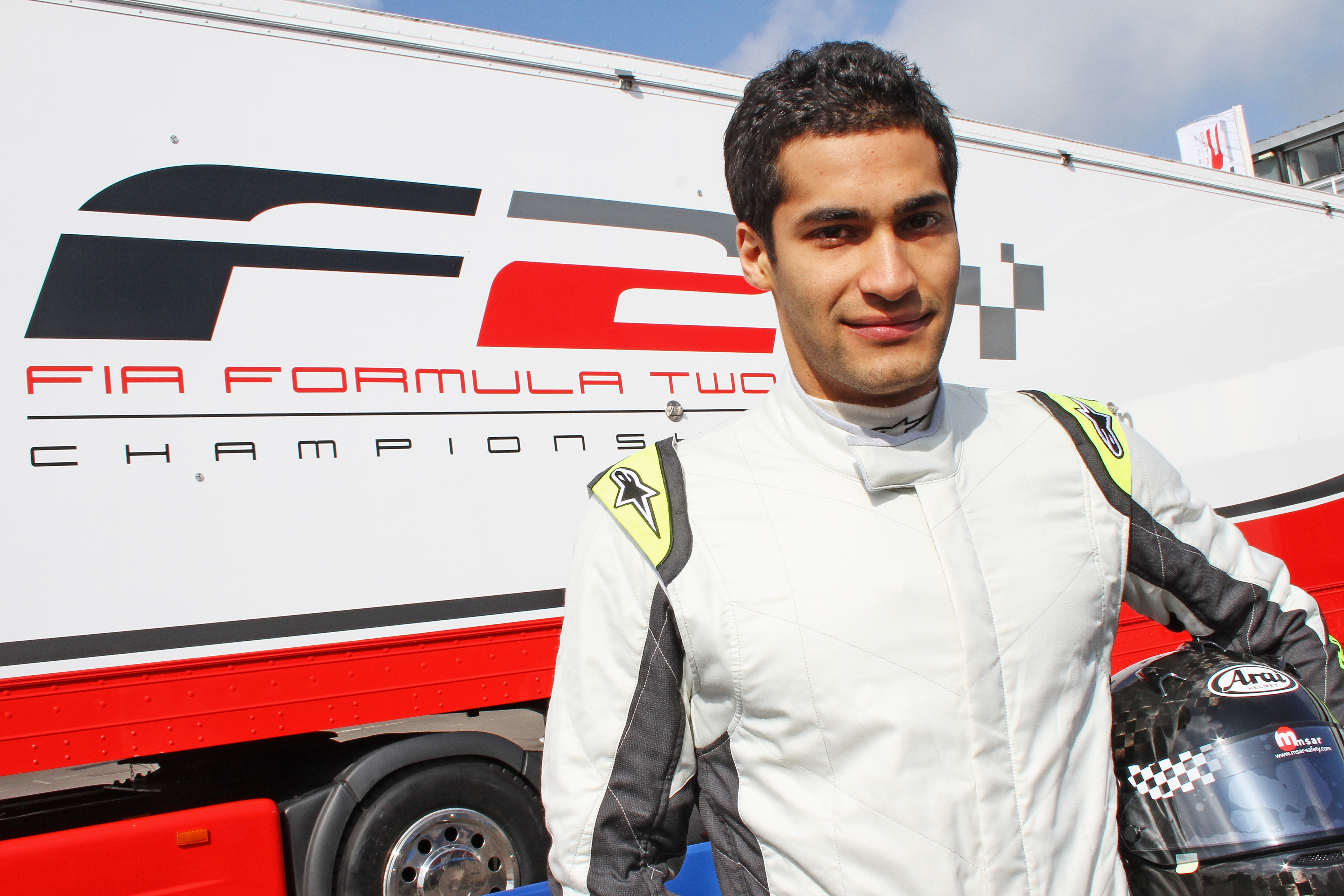 kourosh mohammad khani